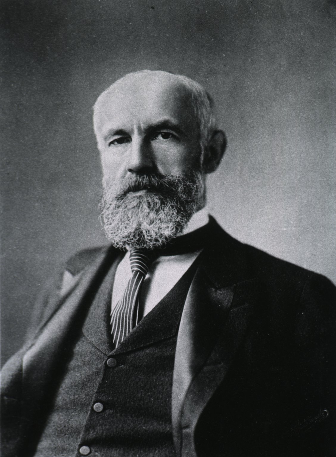 Portrait of Granville Stanley Hall (1844—1924).